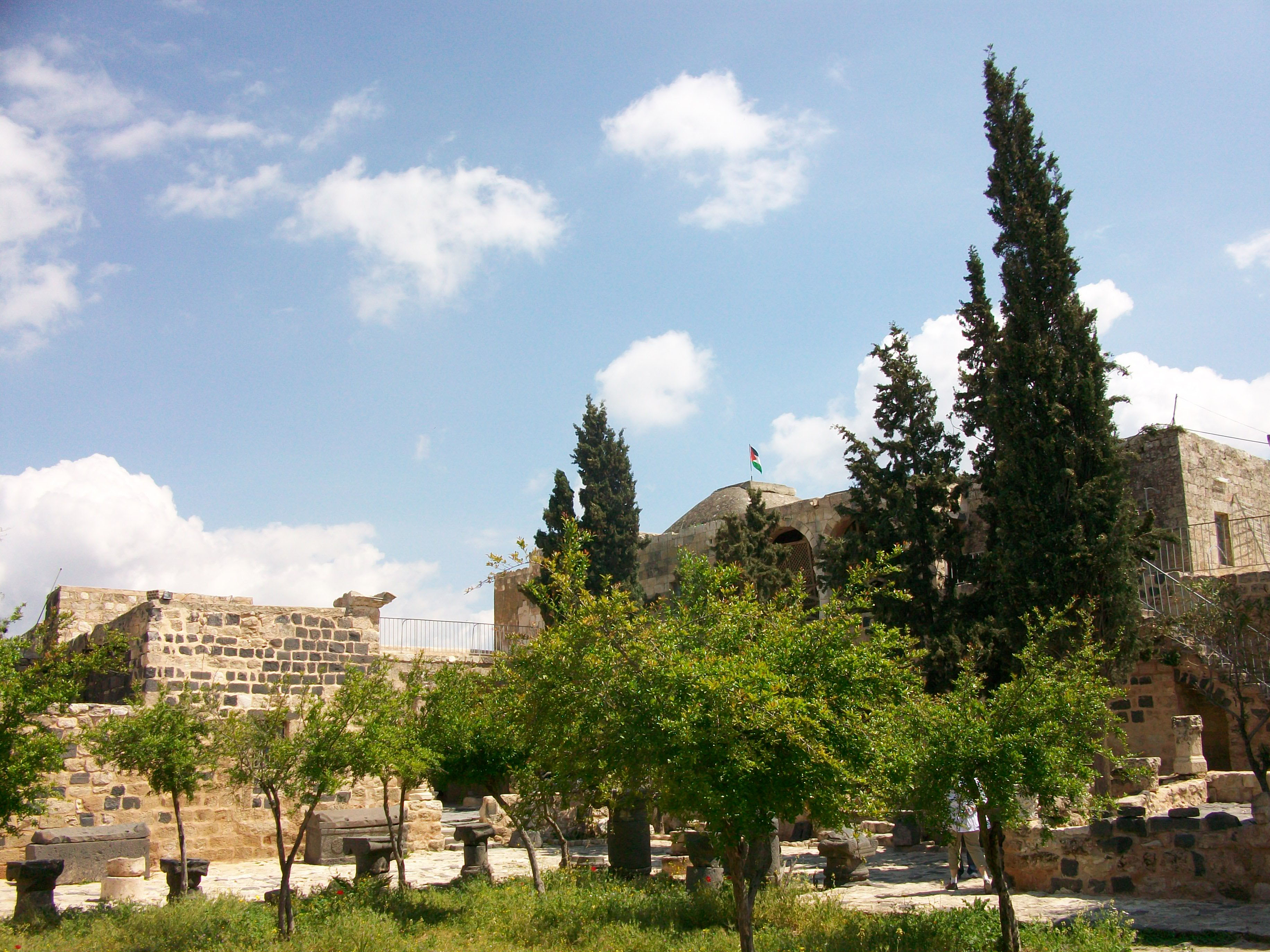 Museum at Beit Russan, Umm Qais, Jordan. Formerly the Ottoman governor's residence.